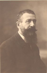 Cesare Burali-Forti, Italian mathematician, best known for paradox Burali-Forti